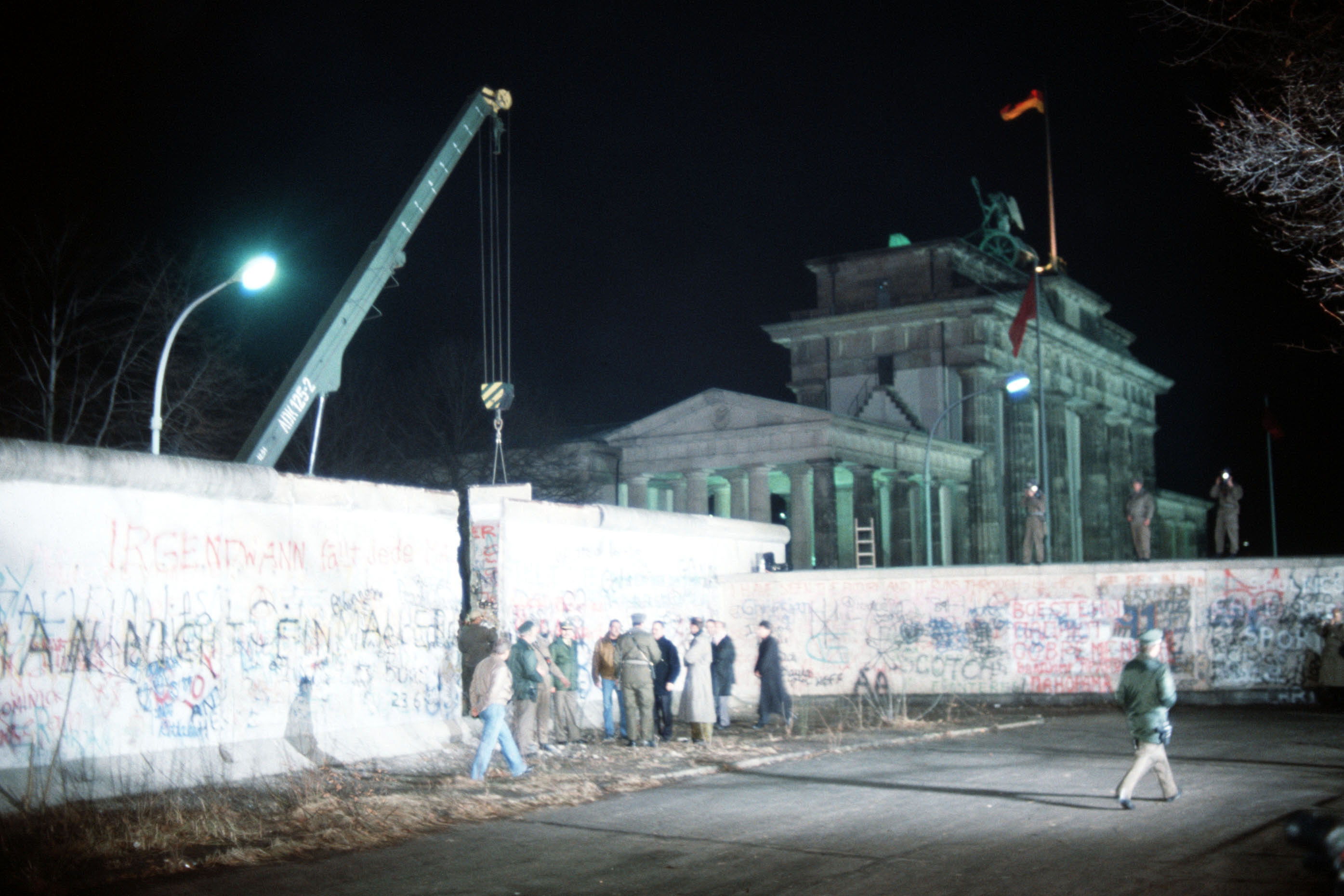 East and West Germans converge at the newly created opening in the Berlin Wall after a crane removed a section of the structure beside the Brandenburg Gate.